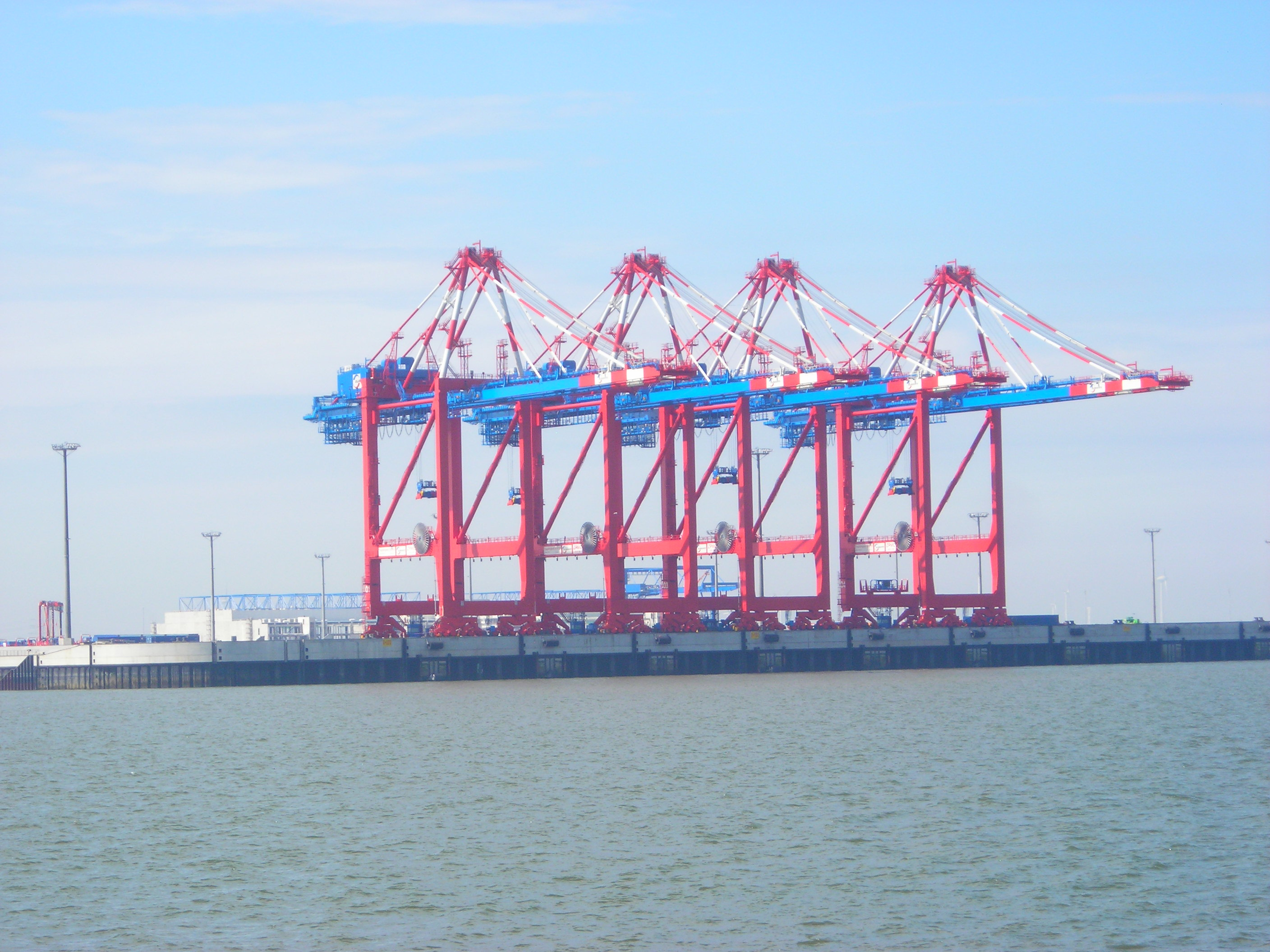 The first four container cranes of the JadeWeserPort seen from the seaside